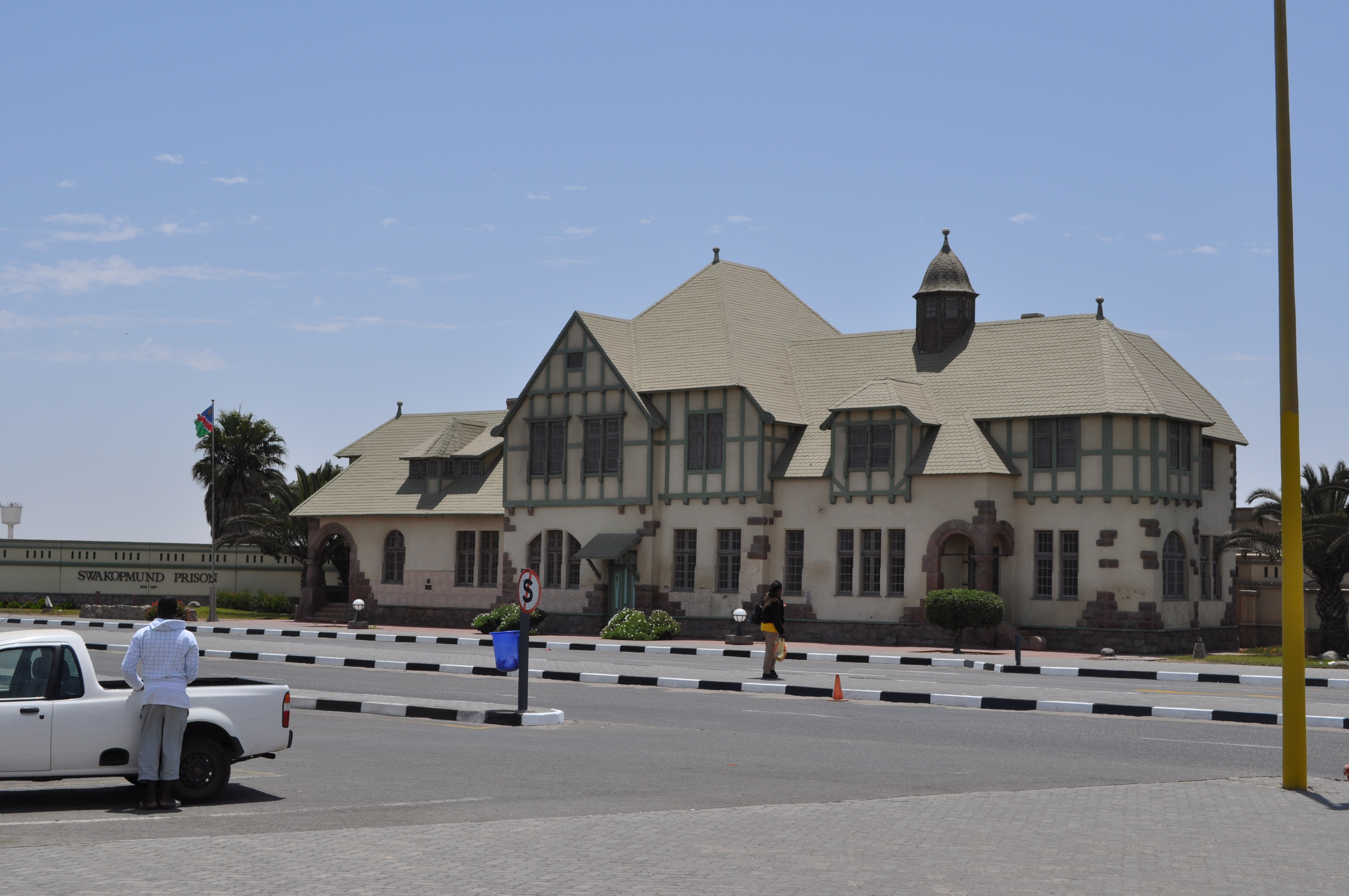 Former German colonial prison still in use today. Former German colonial prison still in use today.